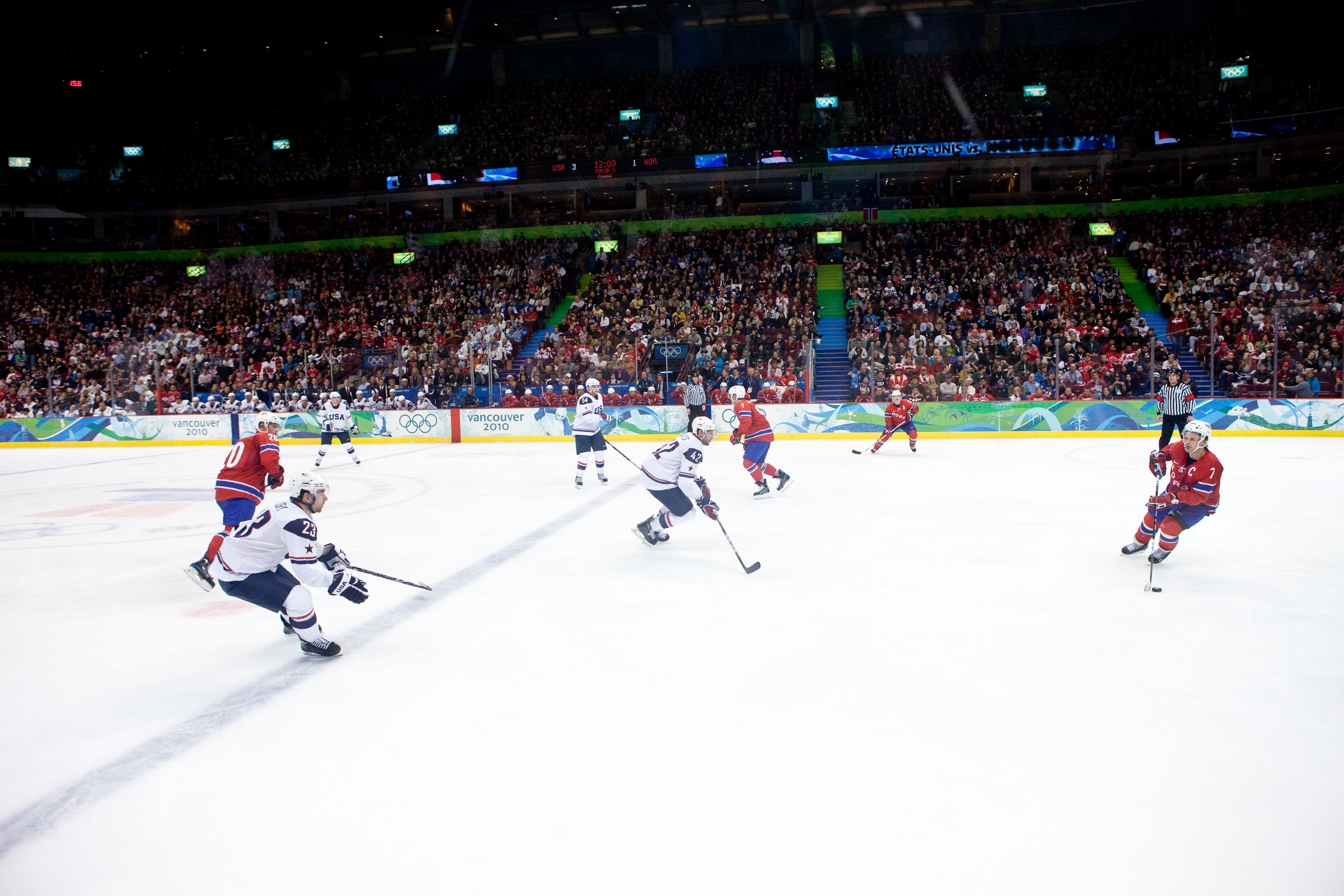 Norway vs. the United States during the 2010 Winter Olympics